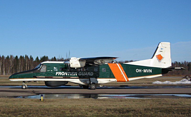 Finnish Border Guard Dornier Do-228 at Helsinki-Malmi Airport